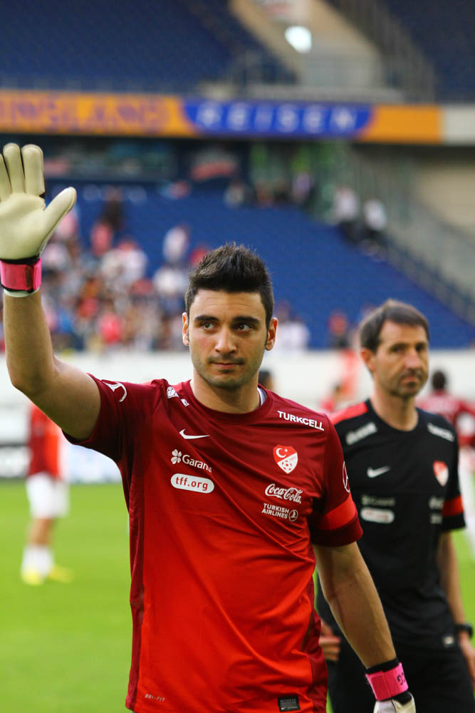 Turkish international football goalkeeper Cenk Gönen